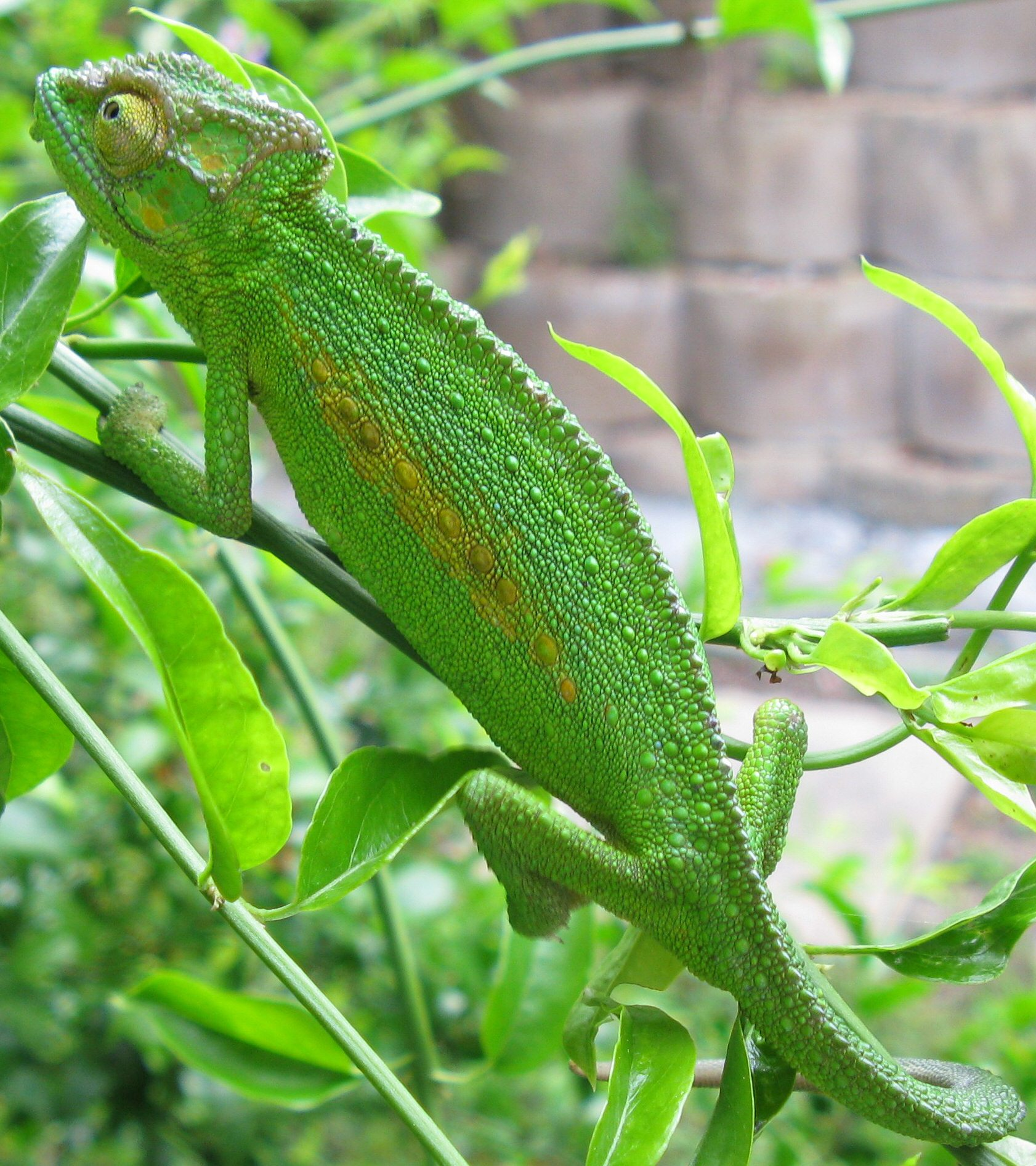 Cropped from File:Bradypodion pumilum Cape chameleon female IMG 1767.jpg